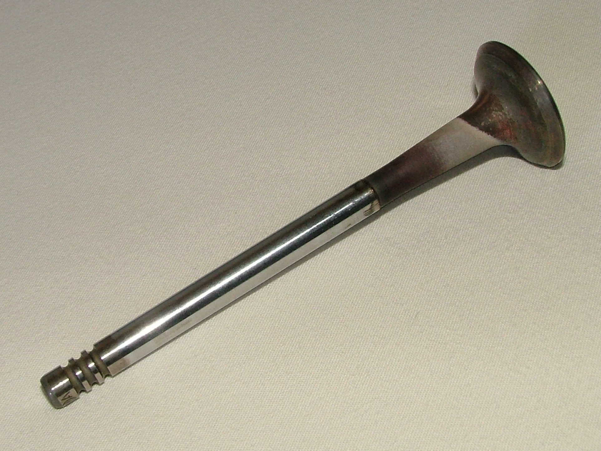 Motor valve, looks used, as opposed to File:Motor valve.jpg which looks brand new.